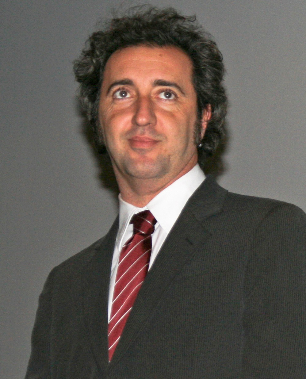 Italian film director and screenwriter Paolo Sorrentino